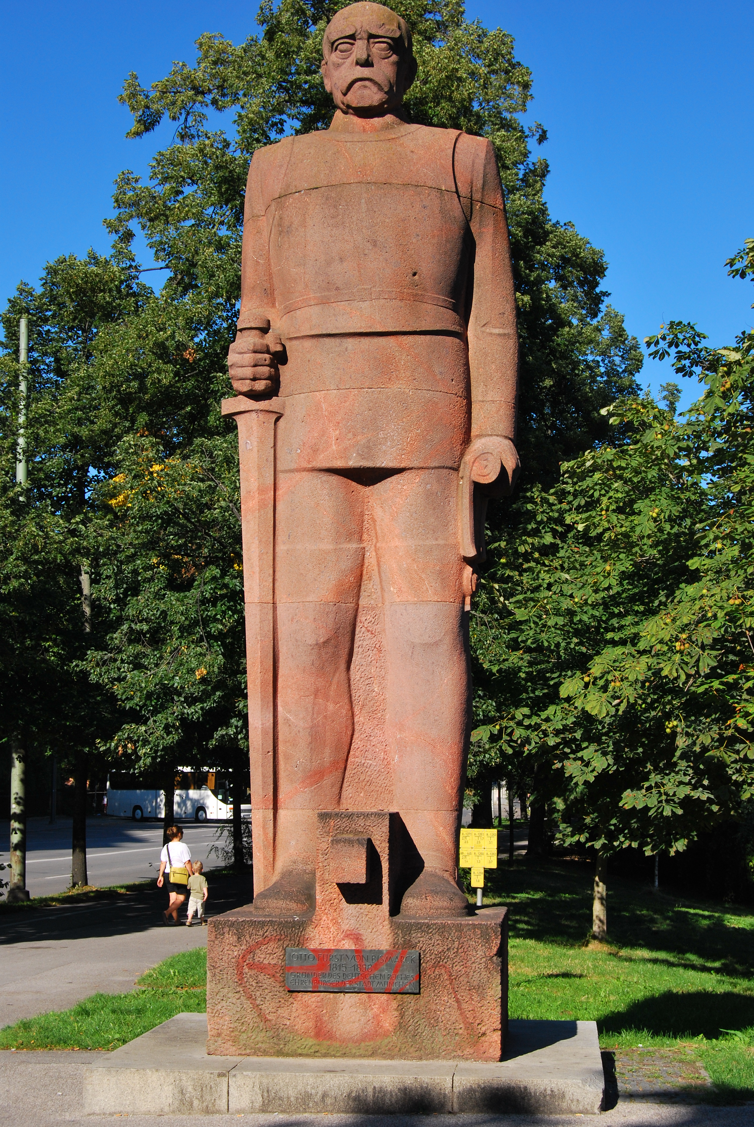 statue of Otto Fürst von Bismarck, founder of the "German Reich" in front of the "Deutsches Museum" in Munich